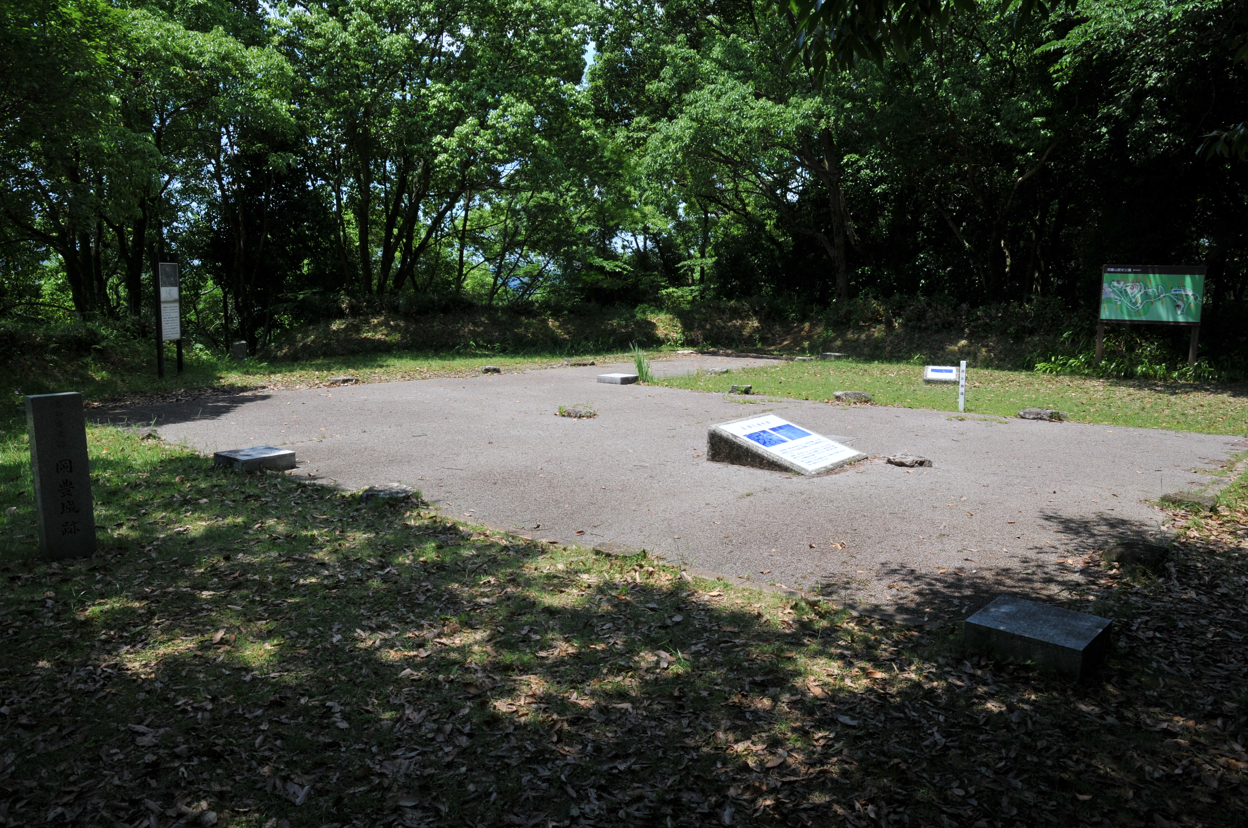 Okō-jō Tsume